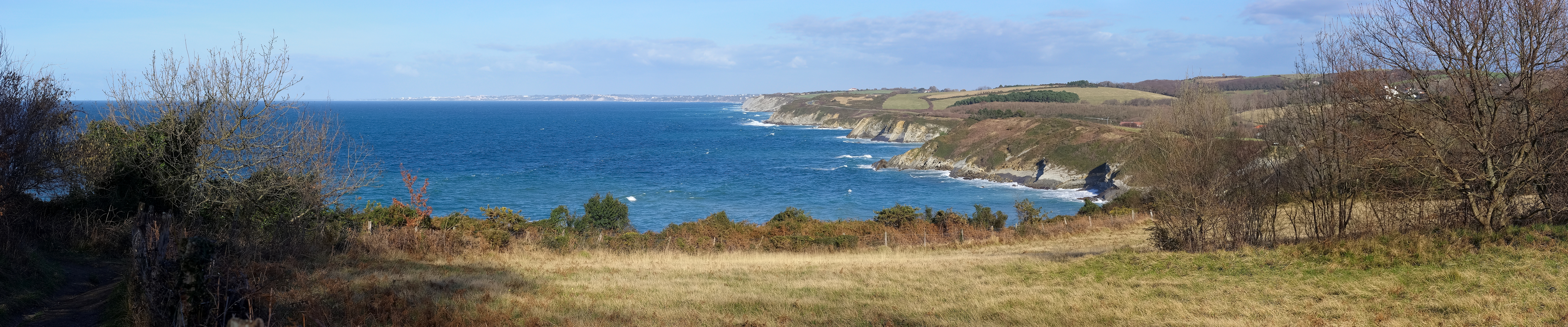 The corniche basque : view on the cliffs from the Abbadia domain, Pyrénées-Atlantiques,France.